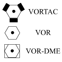 Symbol of VOR, VOR/DME and VORTAC in Airway Chart